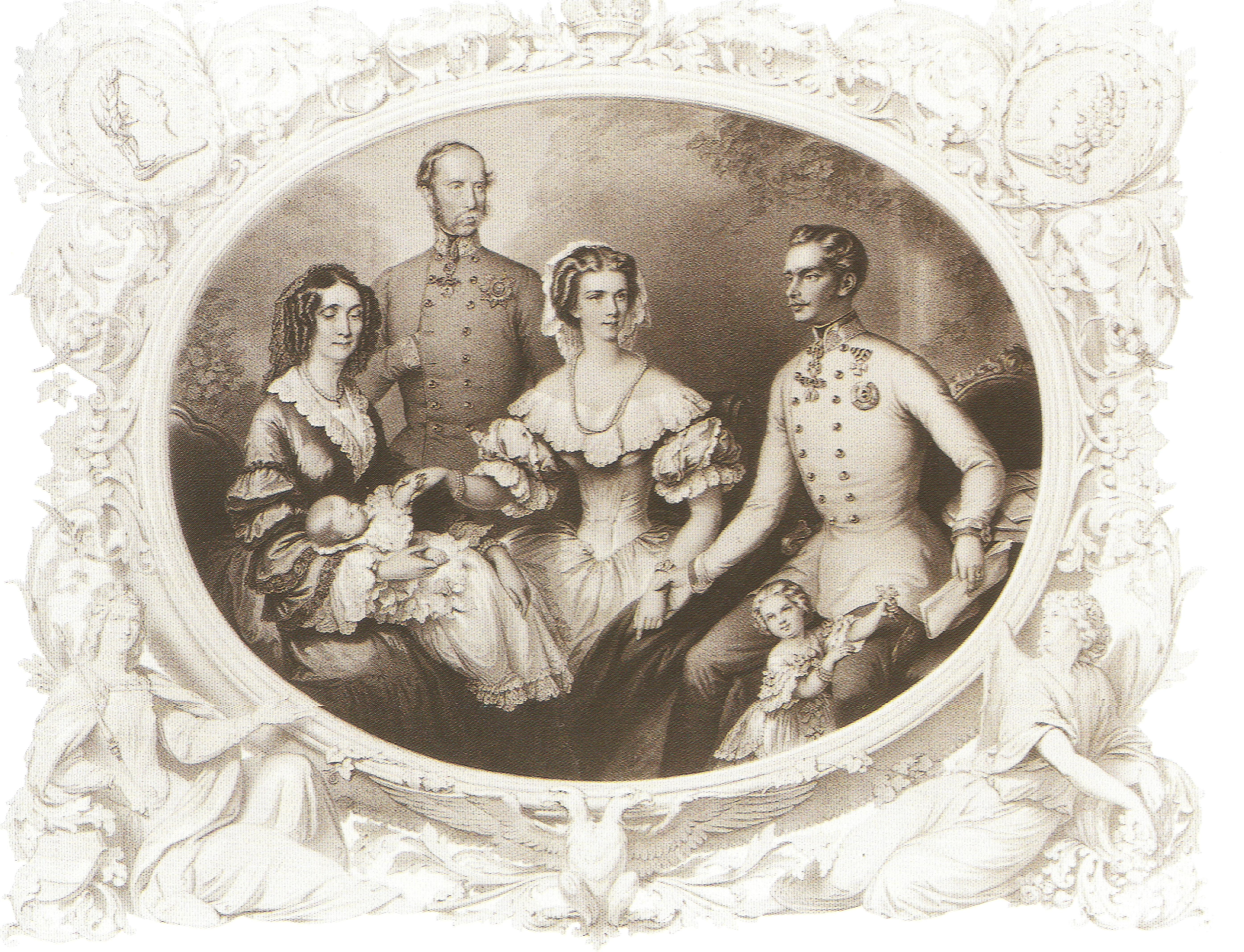 Empress Sisi, Franz Joseph I, Archduchess Gisela, Sophie of Bavaria, Archduke Franz Karl and Archduchess Sophie.